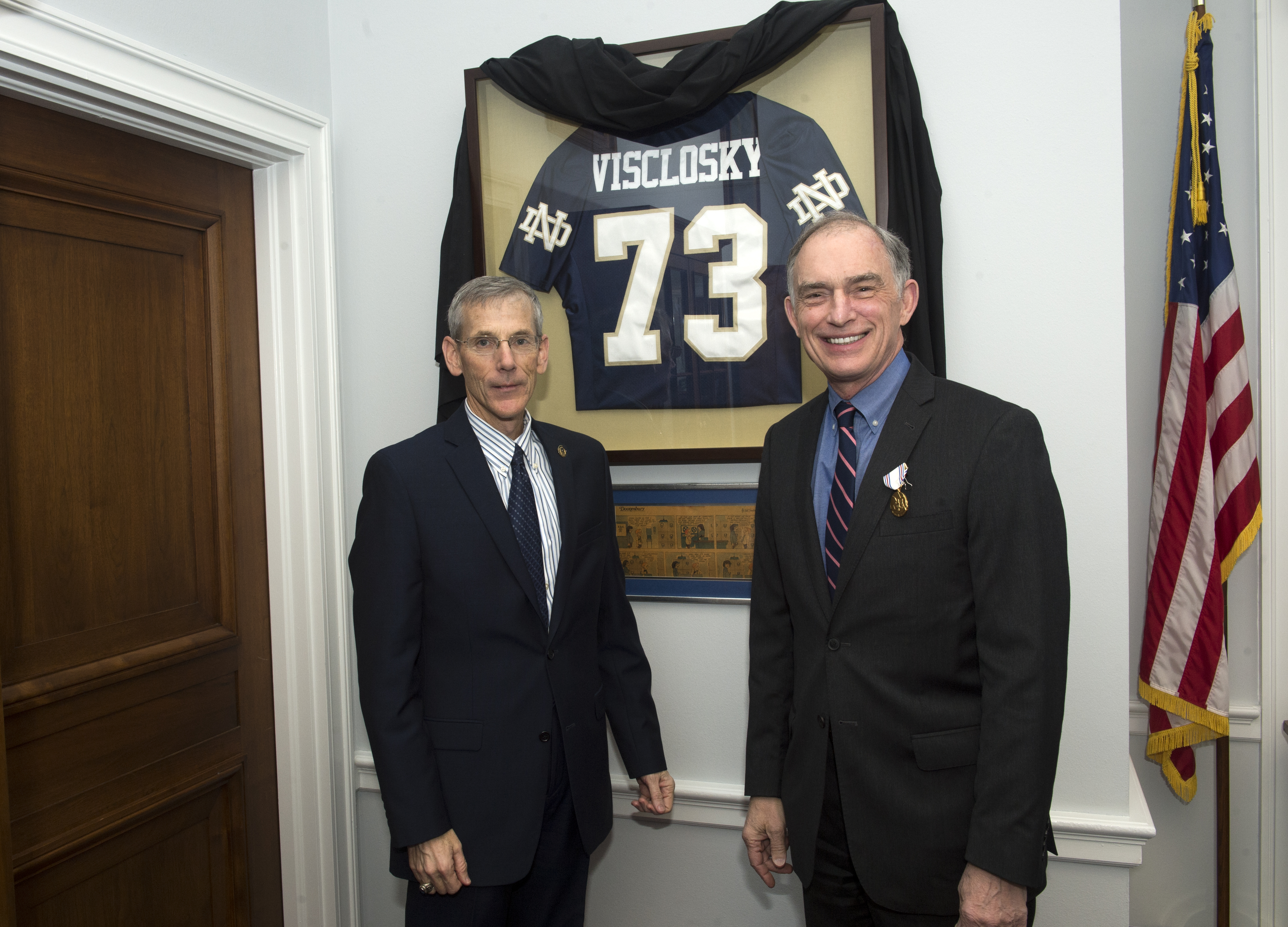 Acting Secretary of the Army Robert Speer and Congressman Pete Visclosky of Indiana's First Congressional District pose in front of a Notre Dame jersey on Capitol Hill. Hon. Speer received a bachelors and Congressman Viscolsky a law degree from Norte Dame. Hon. Speer presented the Distinguished Civilian Award to Congressman Visclosky on Feb. 2, 2017. (Photo Credit: John Martinez)